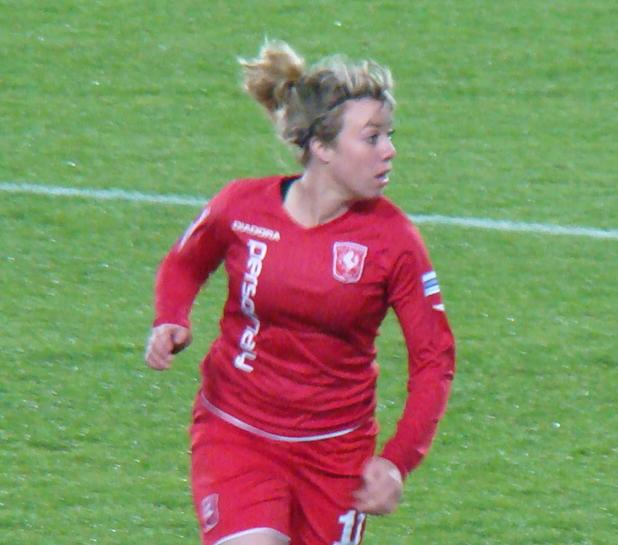 FC Twente player Marlous Pieete